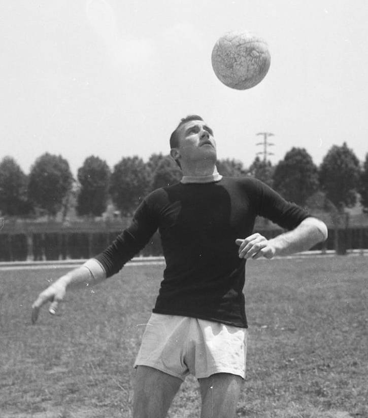 Argentine footballer Pedro Waldemar Manfredini in training with A.S. Roma between 1950s and 1960s.